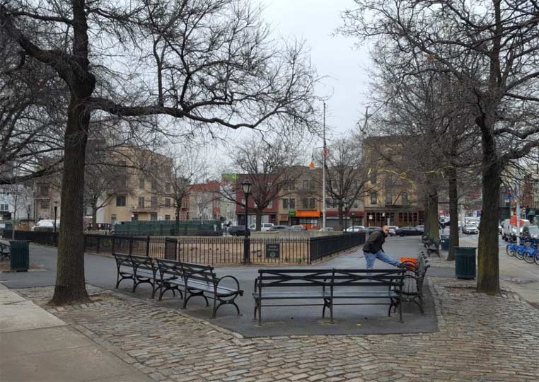 Macri Triangle Photographed by Sergey Kadinsky for the article about Macri Triangle .